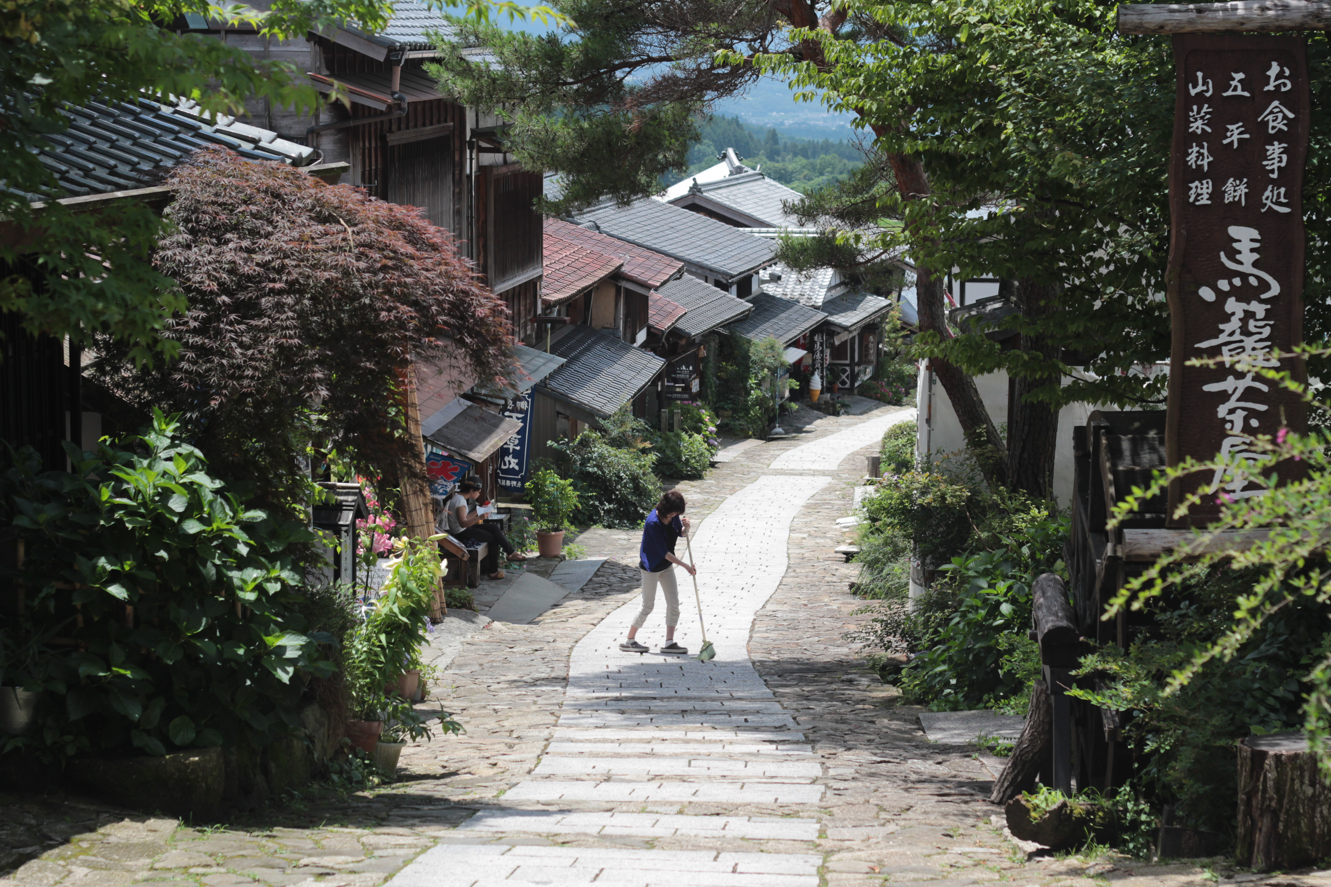 Women cleaning the streets in Magomejuku